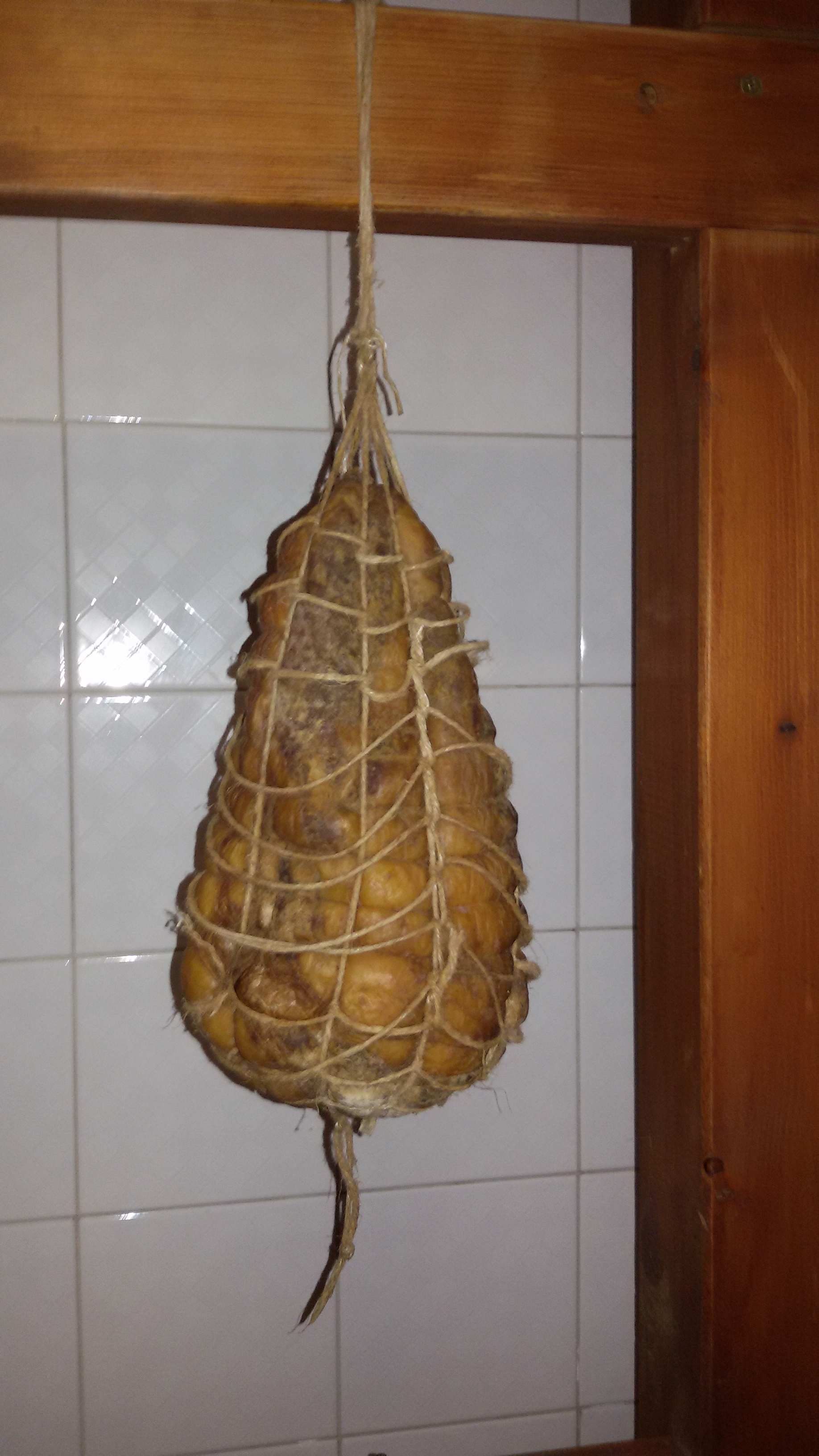 Pig shoulder